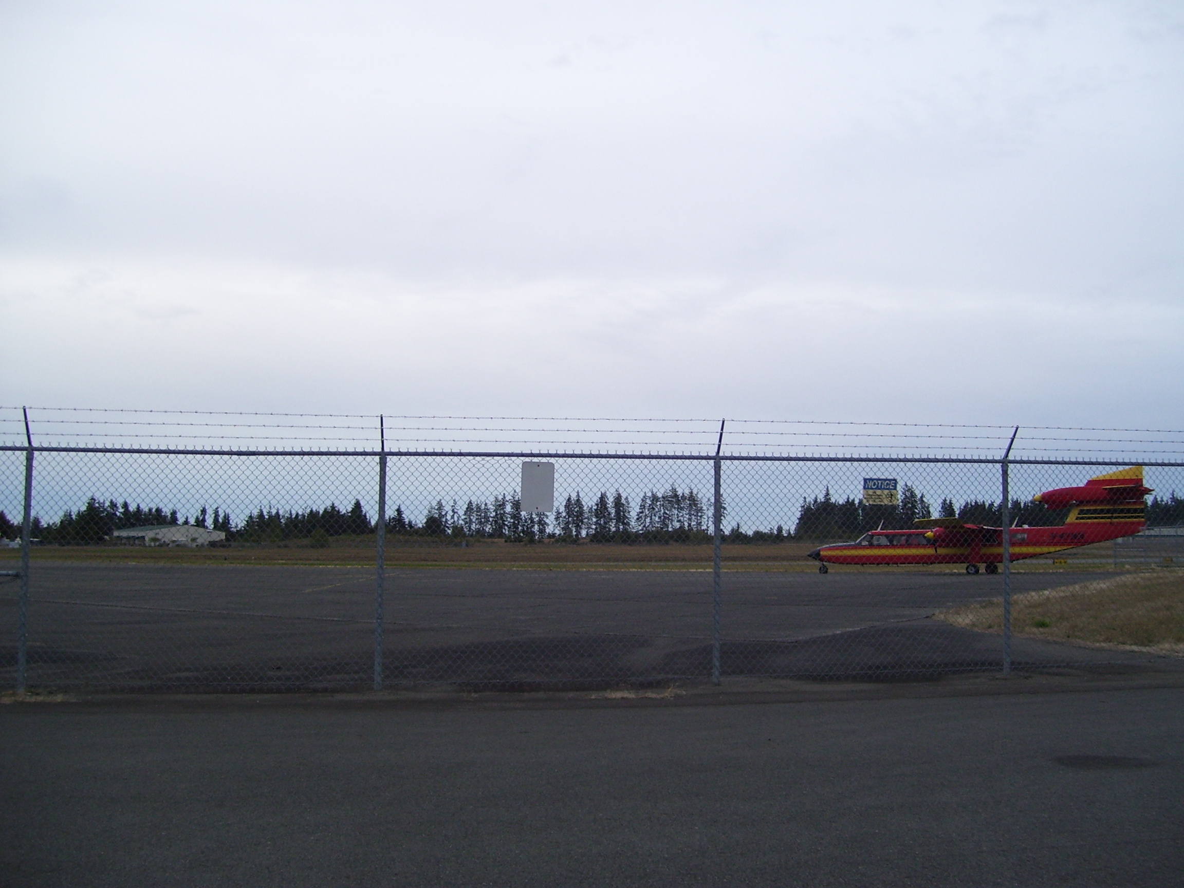 The William R. Fairchild International Airport runway in Port Angeles, Washington.